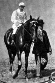 Thoroughbred filly, Winkipop, at the 1910 Epsom Oaks. Winkipop finished sixth.